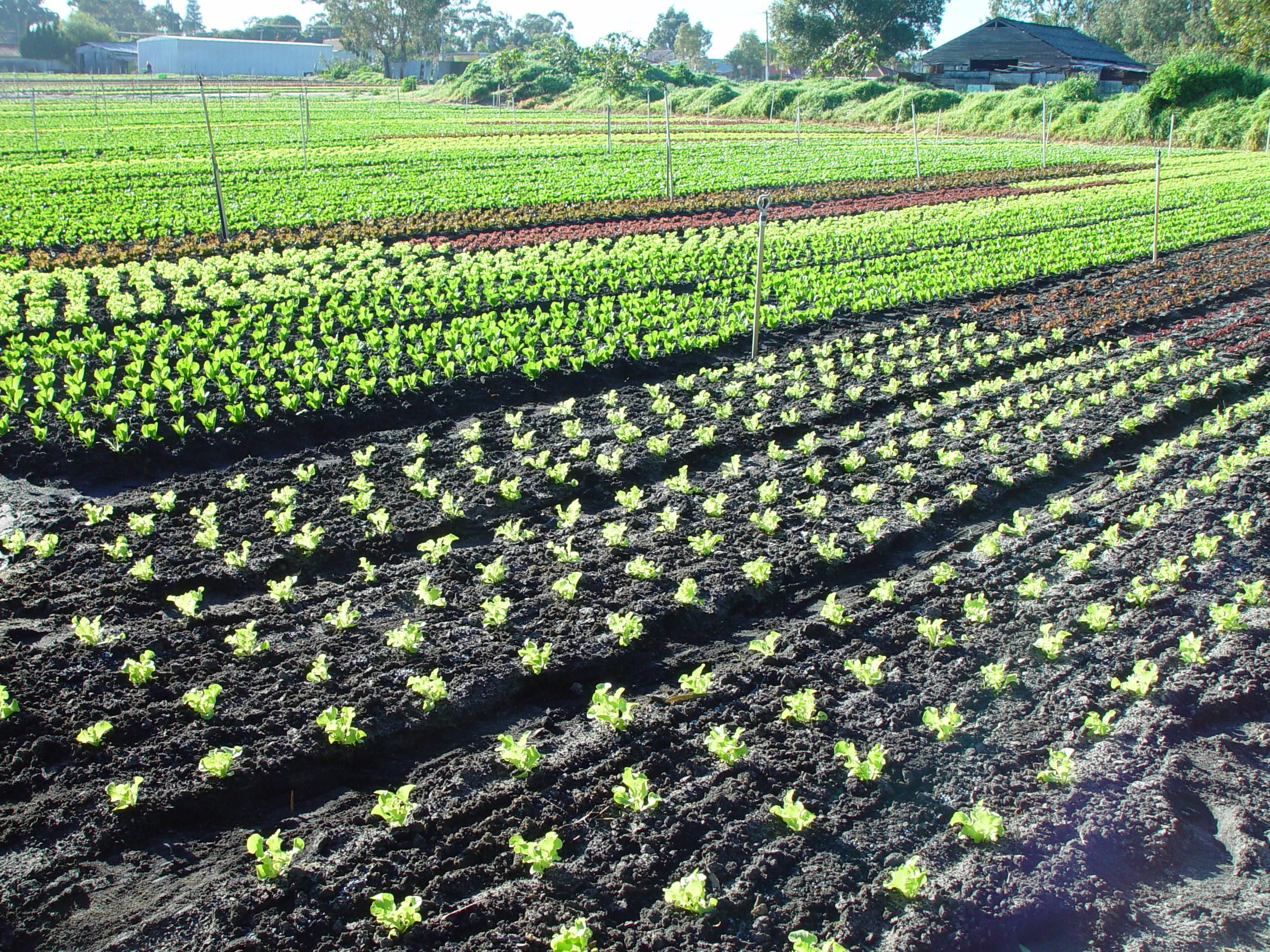 Image title: Seedlings Image from Public domain images website